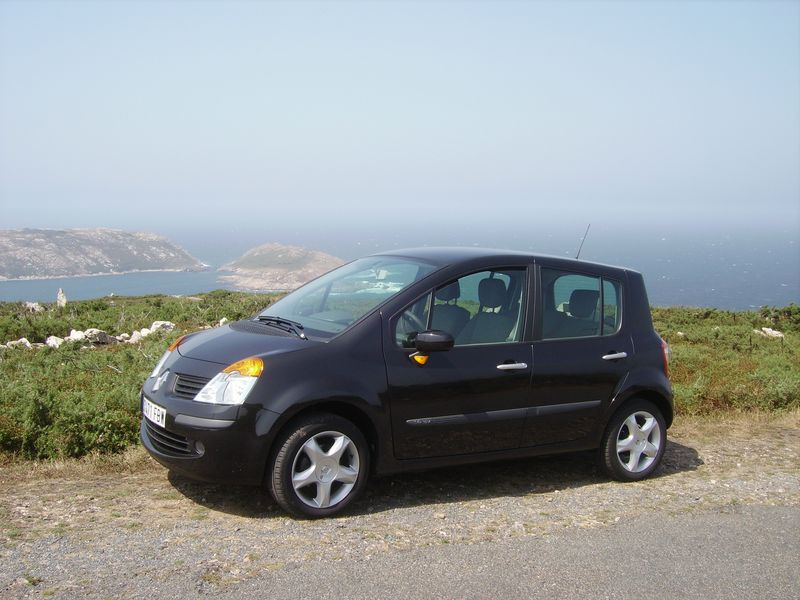 A 2004 Renault Modus.